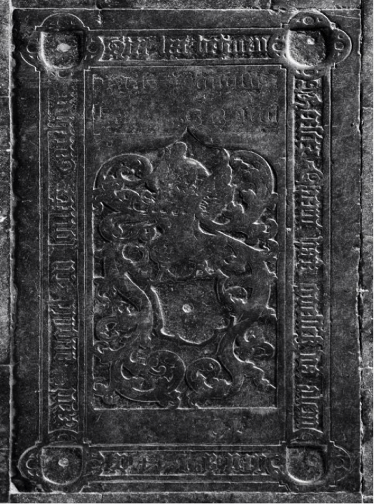 Afbeelding 4 Raessens